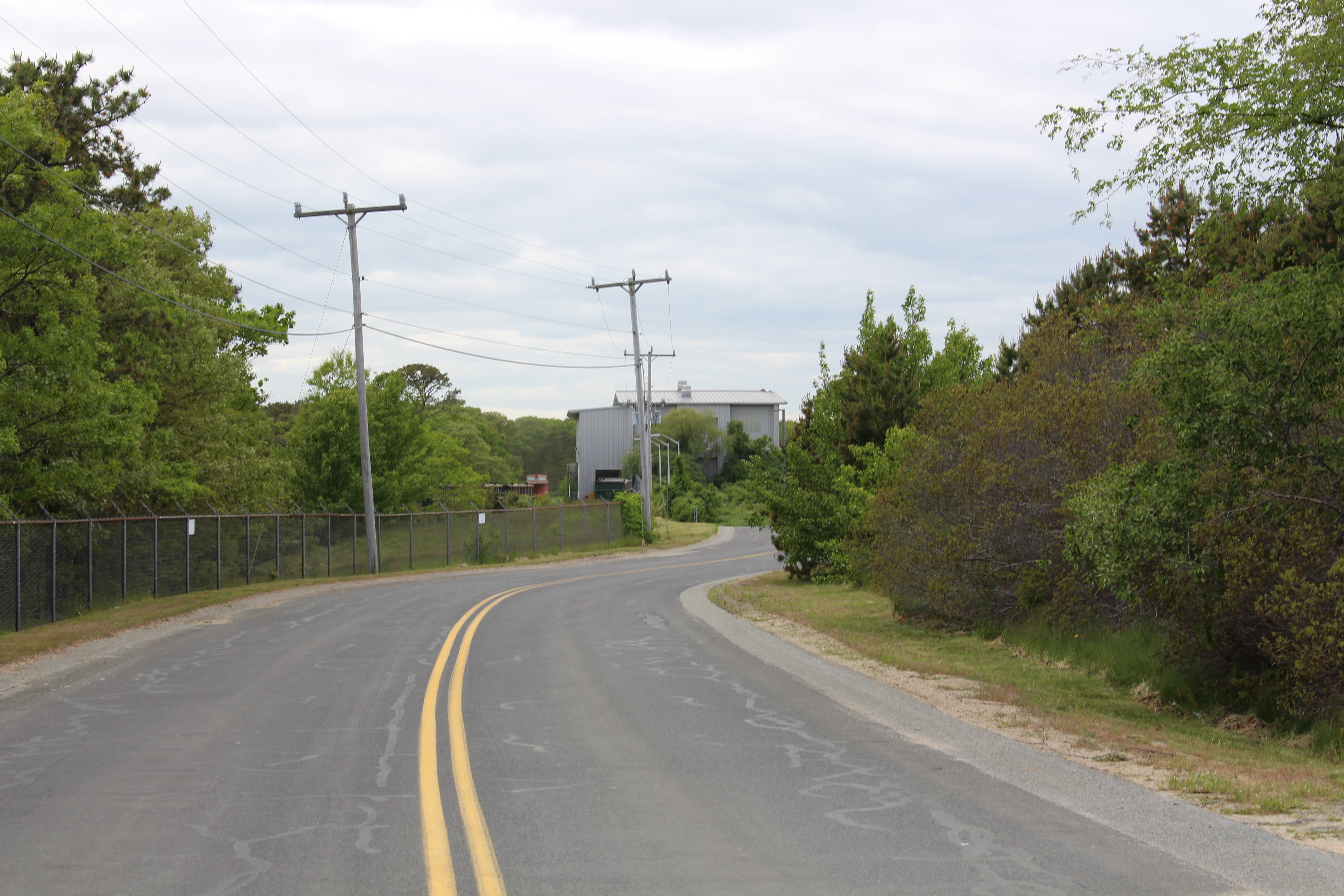 Rail transfer building at the Yarmouth-Barnstable Regional Transfer Station.